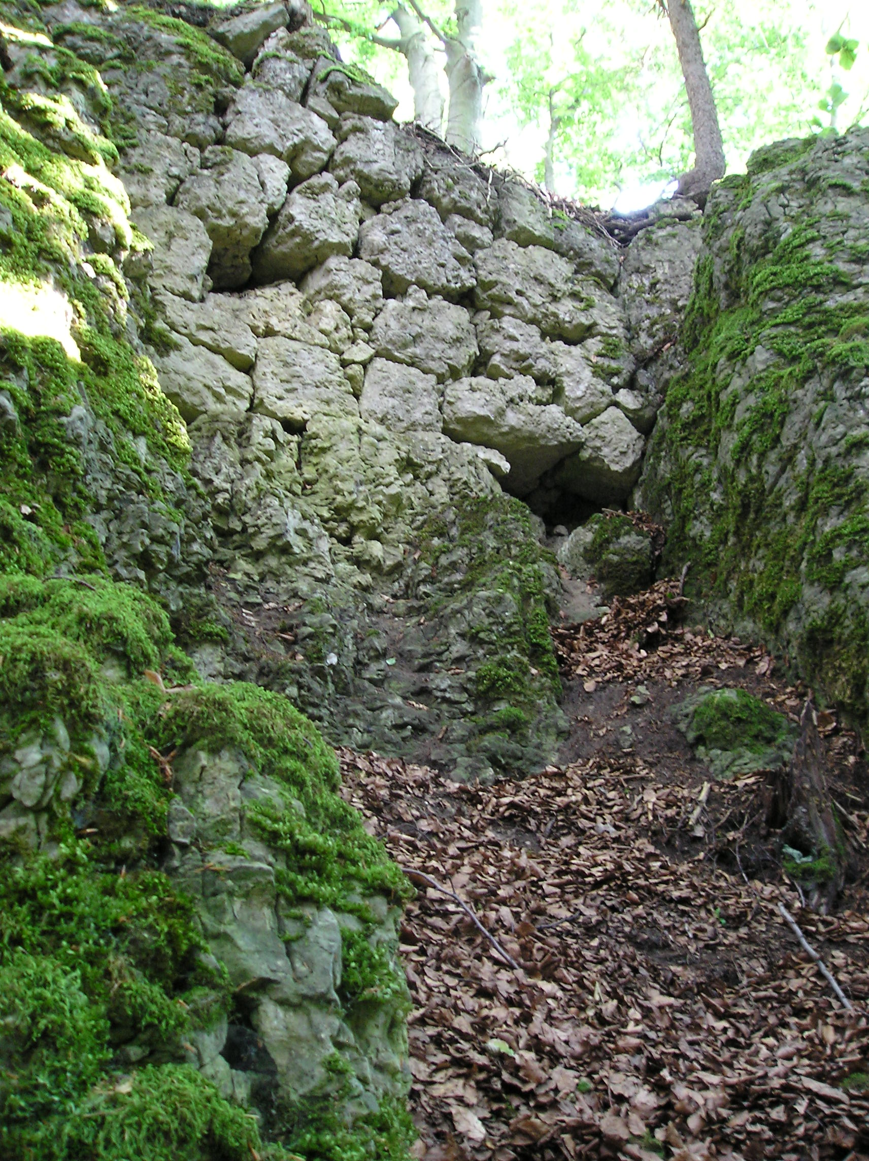 Small wall remenants of the ruins of the castle that was located on top of the Schlossberg next to Haidhof in the Franconian Swiss mountain range, Bavaria. Germany.